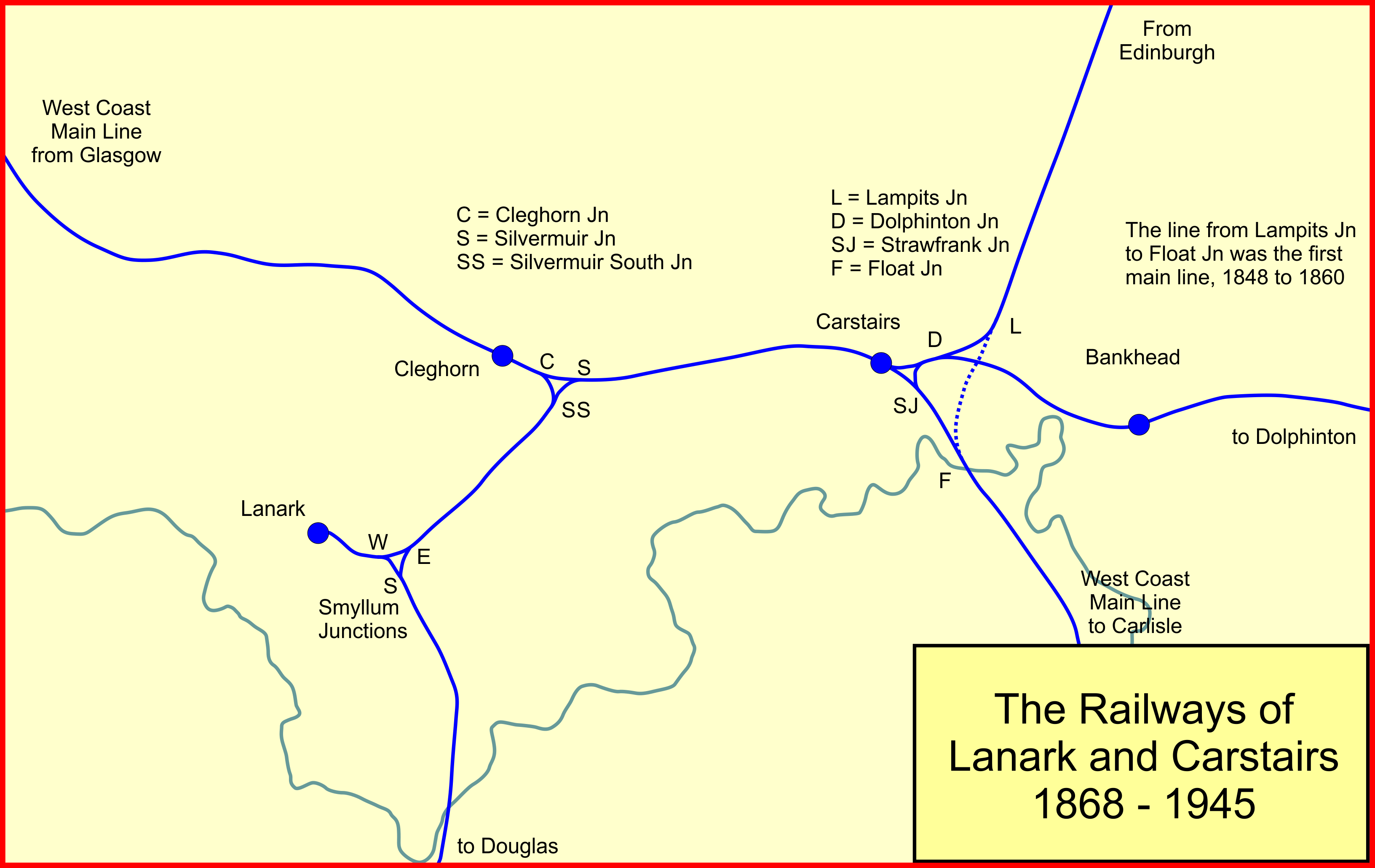 The railway network in Lanark and Carstairs between 1868 and 1945